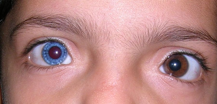 Heterochromia, the subject has a blue and a brown eye